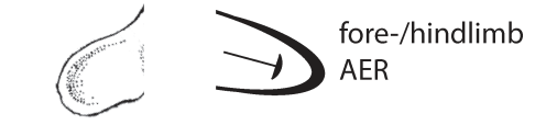 Standard Event System character depiction